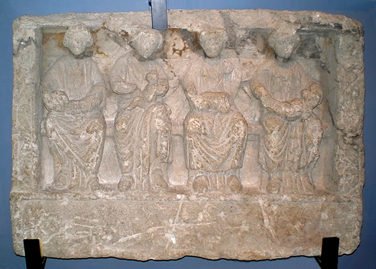 Relief showing matronae, Museum of London.